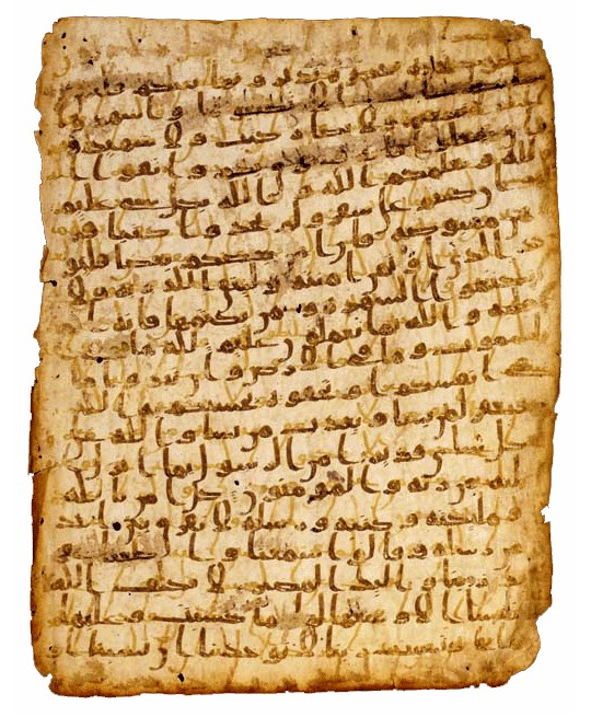 Manuscript on vellum, written in sepia-coloured Hijazi script. An Early Qur'anic Manuscript (1st century Hegira). from the word tijarat in verse 282 to the words nasiynā aw in verse 286 of Sūrah al-Baqarah. Script: Hijazi. Location: The David Collection, Copenhagen.